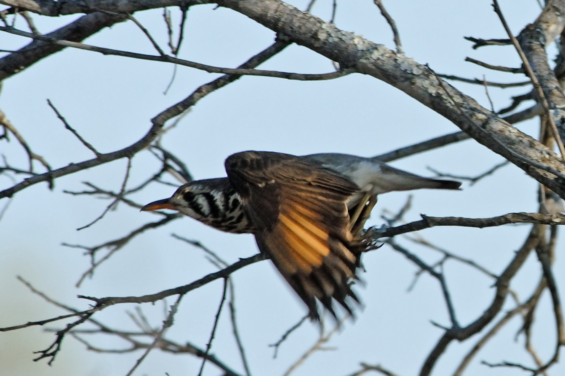 Groundscraper Thrush (Psophocichla litsitsirupa) in flight